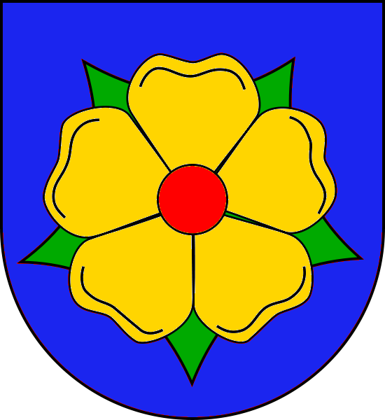 coat of arms of the Lords of Hradec